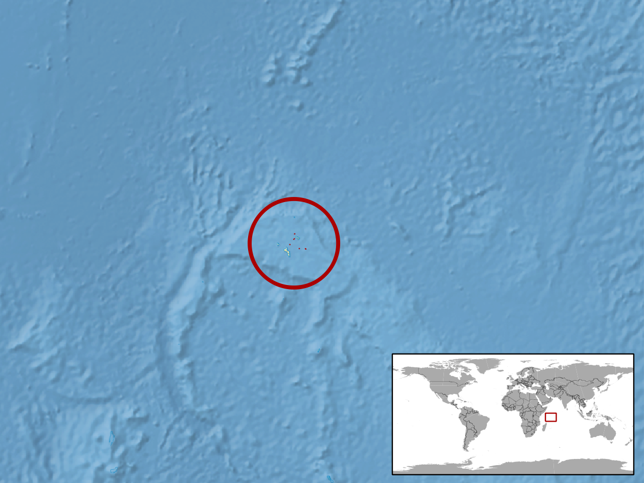 geographic distribution of Trachylepis wrightii